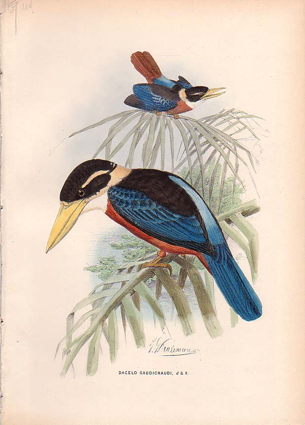 Kingfisher by Keulemans